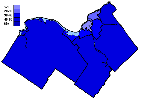 Map of Ottawa showing the Conservative support, 2004 federal election